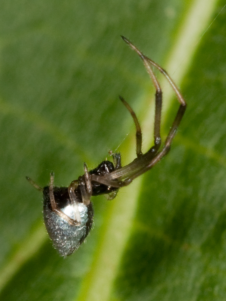 Dewdrop spider female (possibly Argyrodes elevatus or Argyrodes nephilae) at Shelby Park in Nashville, Tennessee.